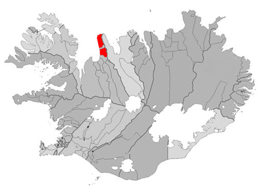 Based on Municipalities of Iceland.png.